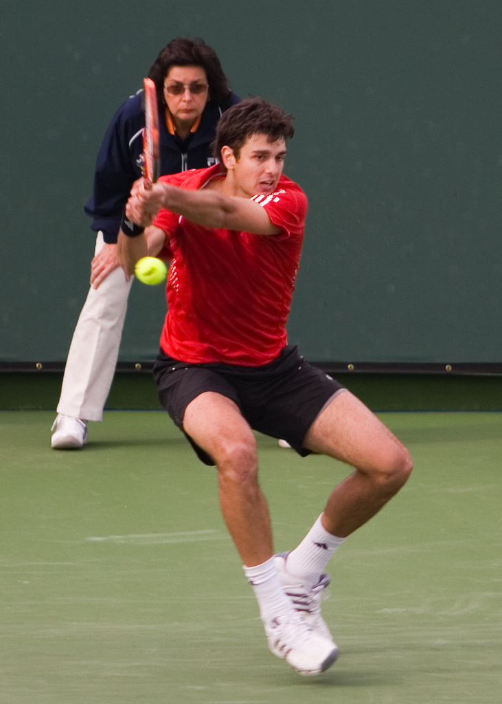 Mario Ancic hitting backhand at Indian Wells, 2008